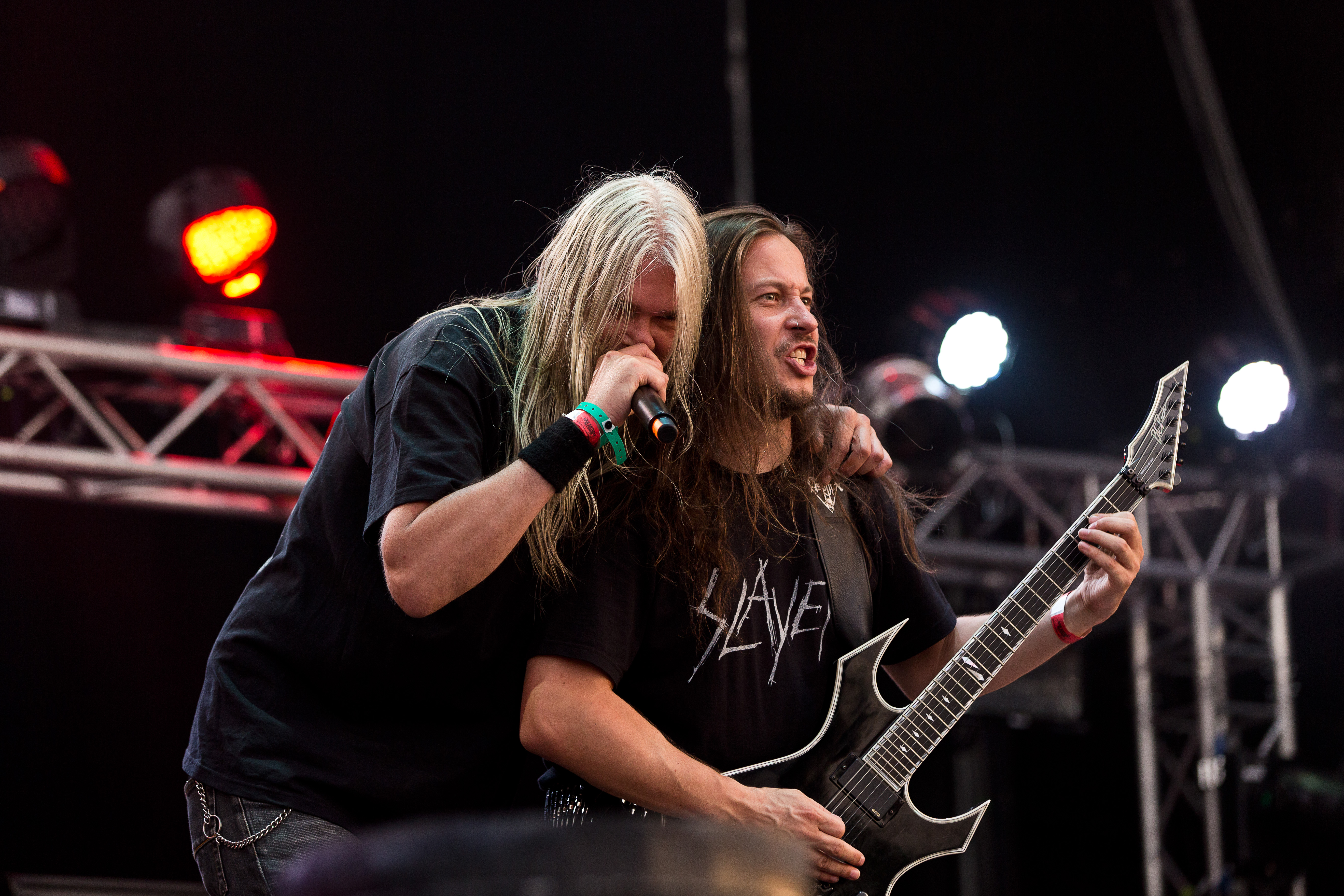 The Dutch death metal band Asphyx at the Party.San Open Air 2015 in Obermehler-Schlotheim/Germany.